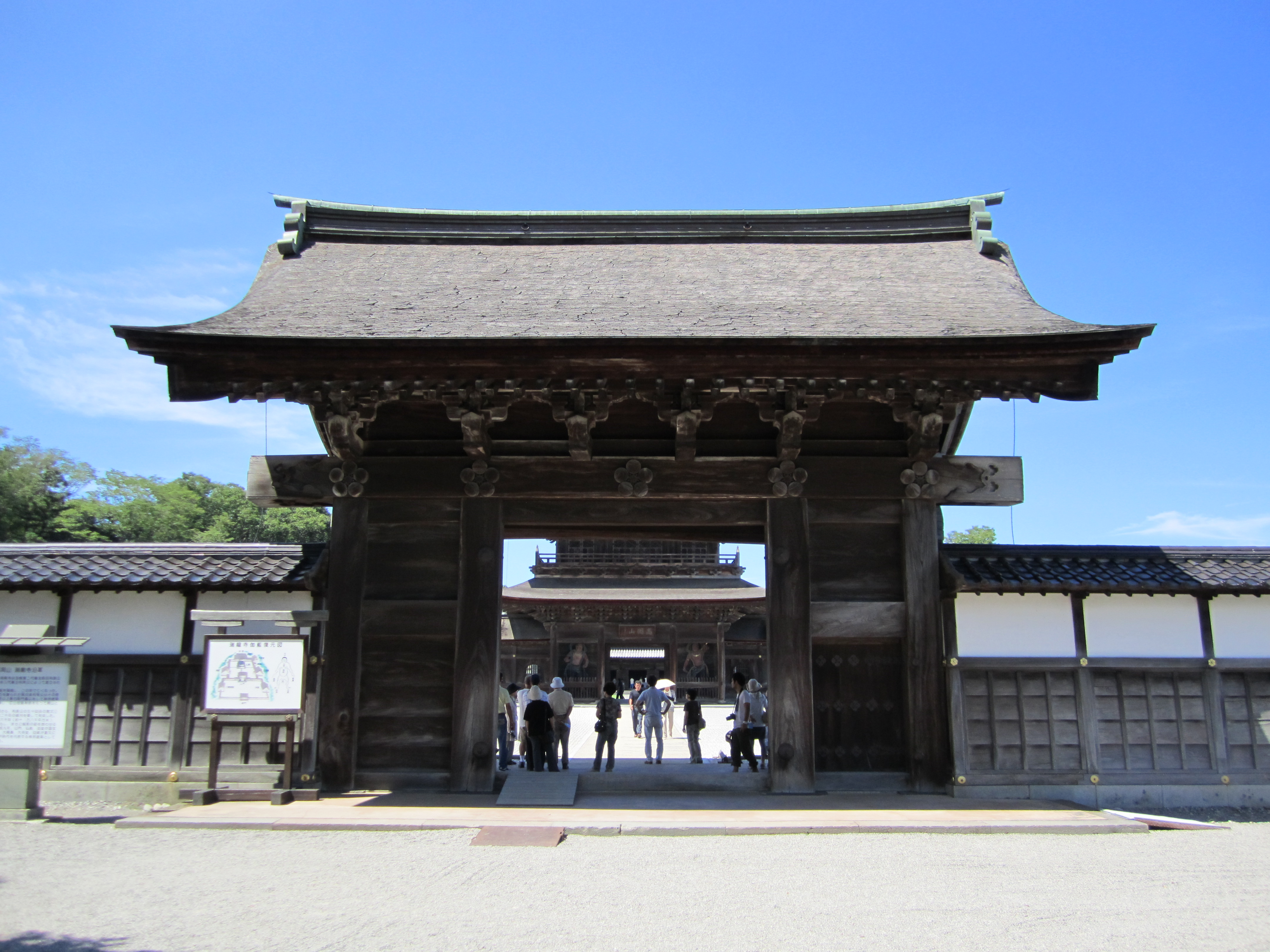 Somon, Zuiryuji Temple